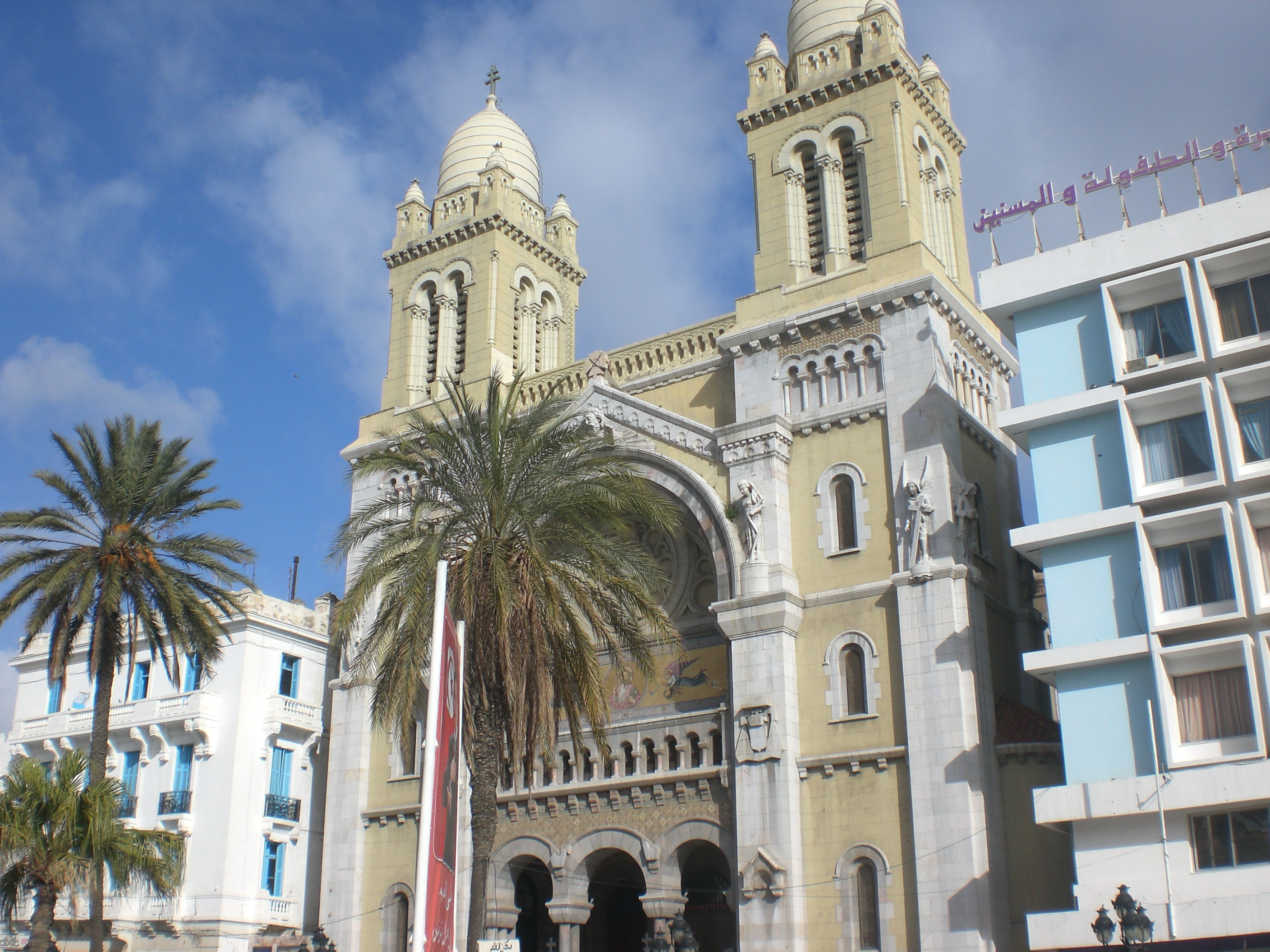 The Cathéfrale de Tunis